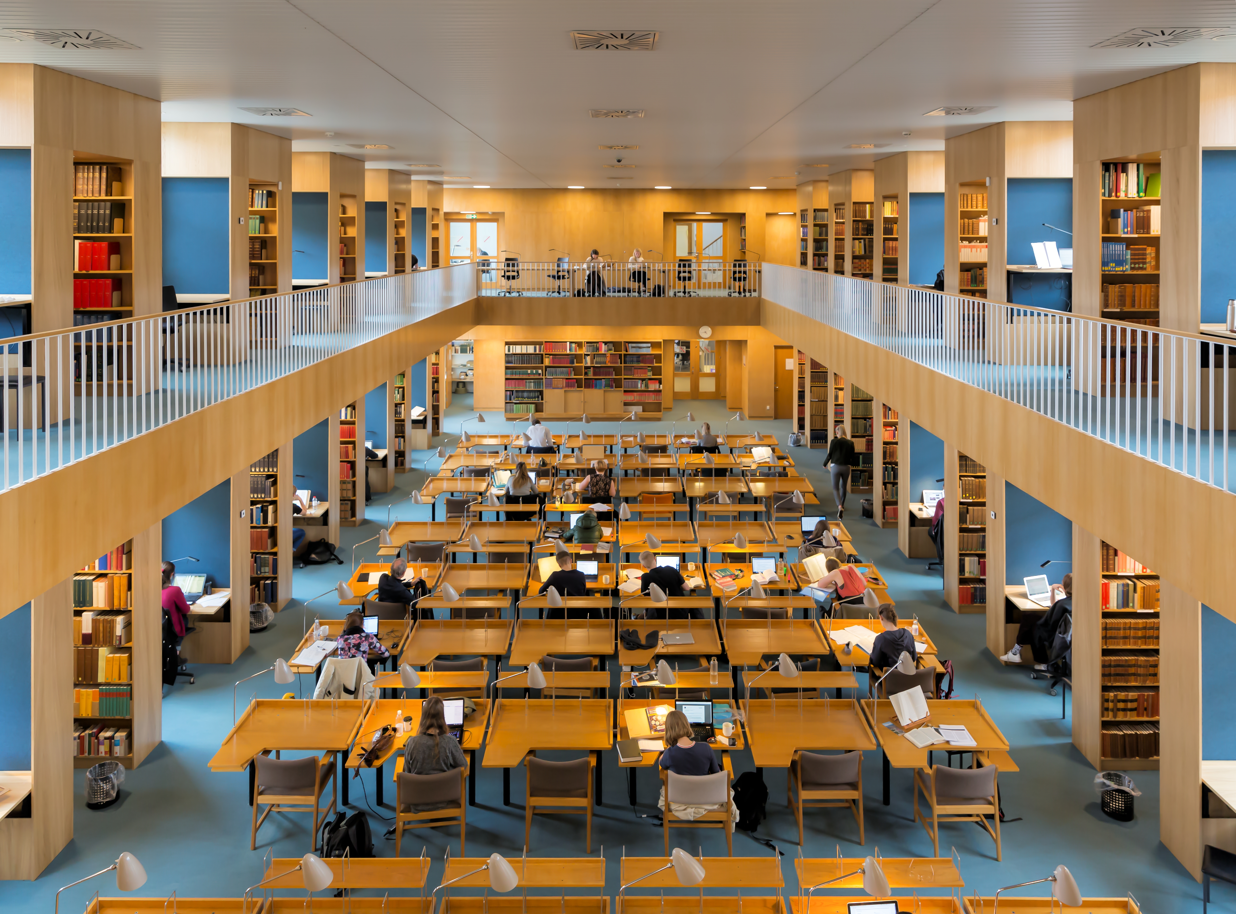 A reading room in the State and University Library (Statsbiblioteket) in Aarhus, Denmark